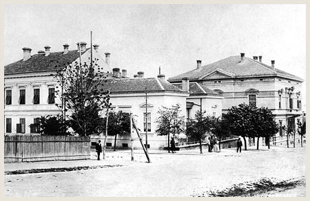 slika3